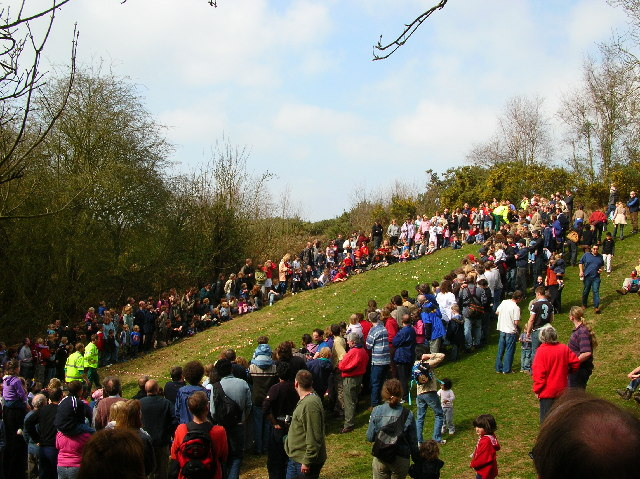 Easter Monday Egg Roll. Every Easter Sunday, the park rangers hold a 'Best Decorated Egg' competition, followed by the traditional egg roll. A great local event!